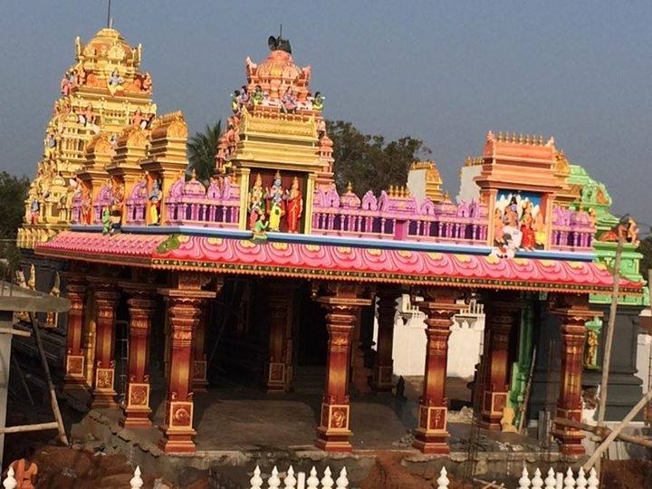 Newly Built Ramanjaneya and Shivalayam in Guduguntlaplaem